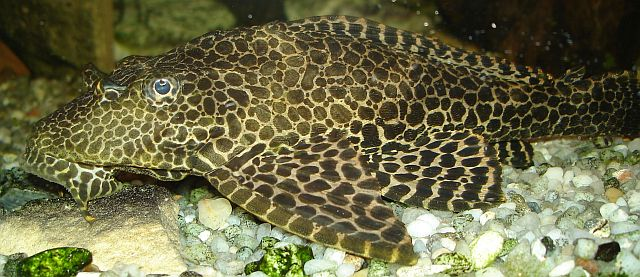 Pterygoplichthys gibbiceps